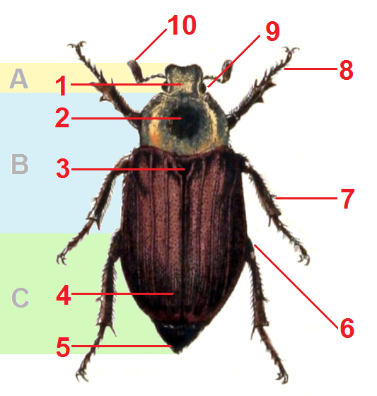 Melolontha melolontha female, from Calwer's Käferbuch, Table 19, Picture 4. Taxonomy was updated to 2008, using mostly the sites Fauna Europaea and BioLib. Please contact Sarefo if the determination is wrong!